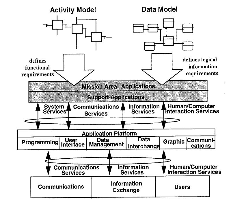 Relationship of Information Models to the DoD Technical Reference Model